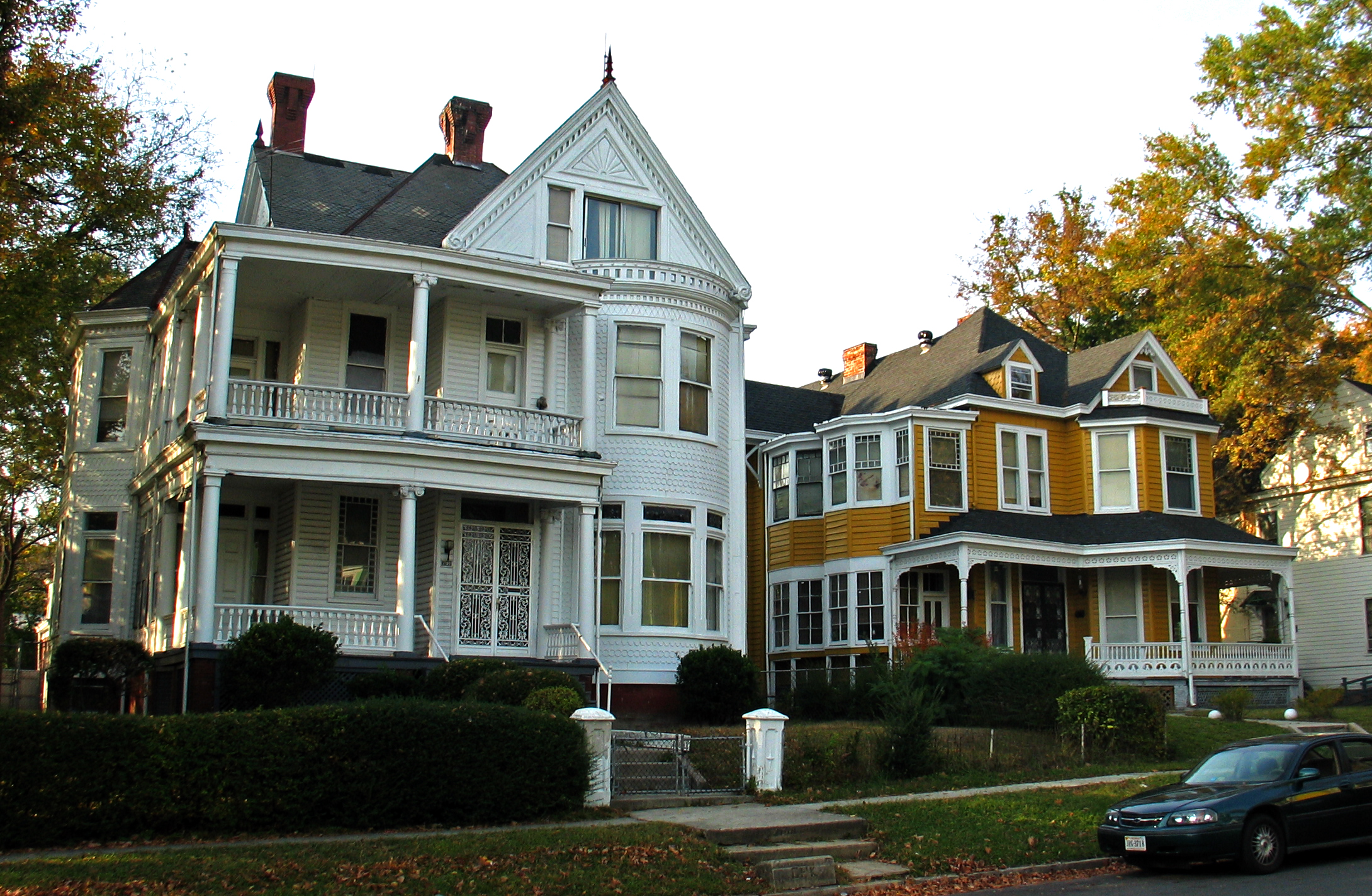 Photograph: November 10, 2005, Andrew Bain